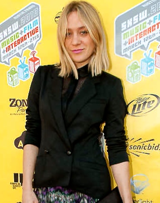 Chloë Sevigny in 2010, Austin, Texas